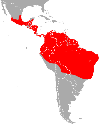 Greater Sac-winged Bat (Saccopteryx bilineata) range